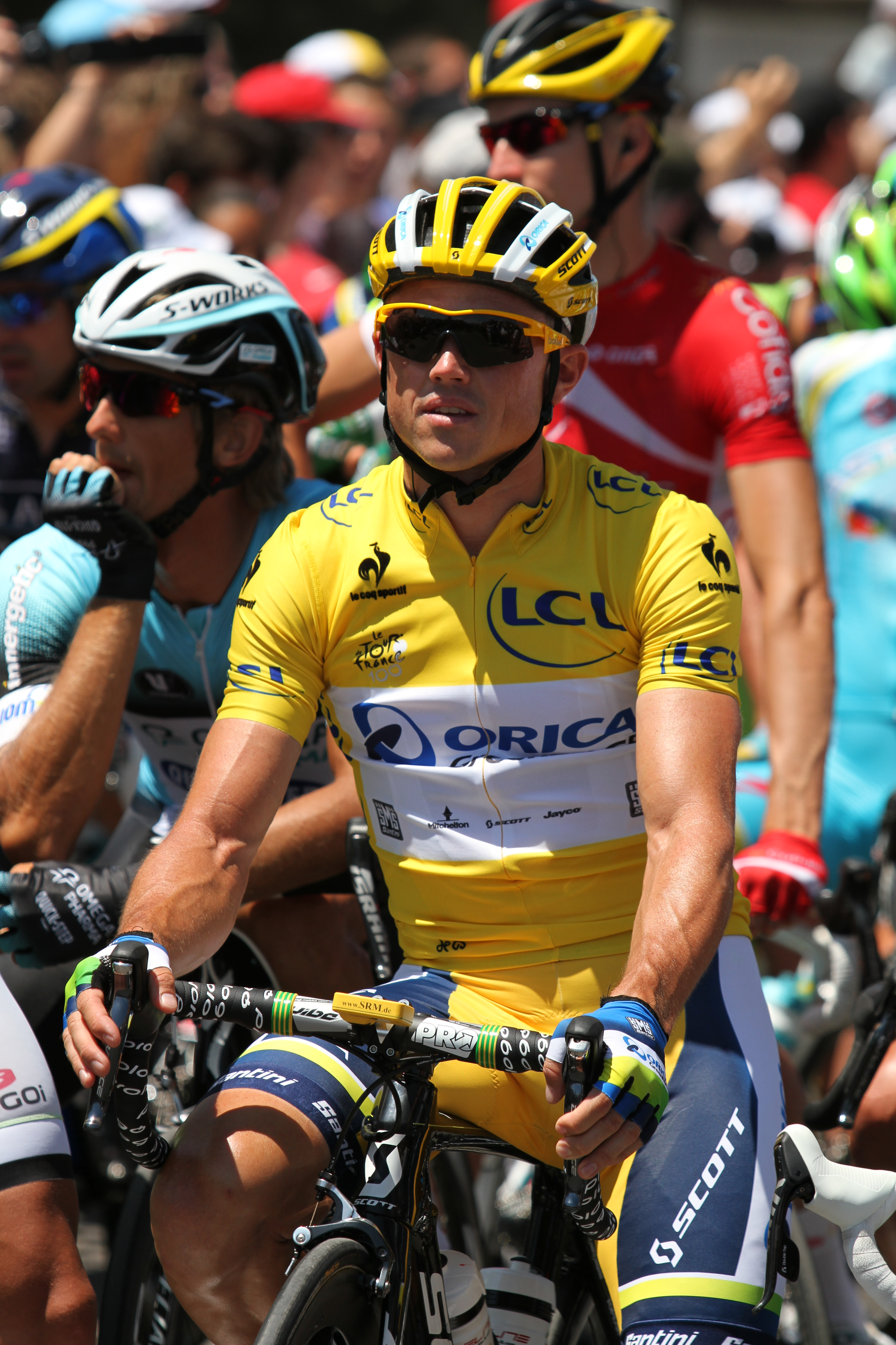 Simon Gerrans during Stage 6 of the Tour de France 2013 in Aix-en-Provence (Bouches-du-Rhône, France)